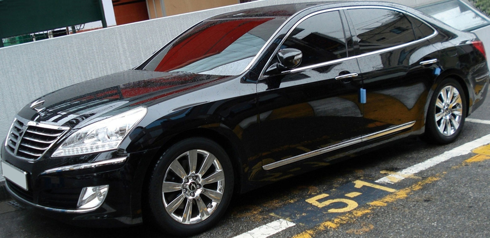 Hyundai Equus